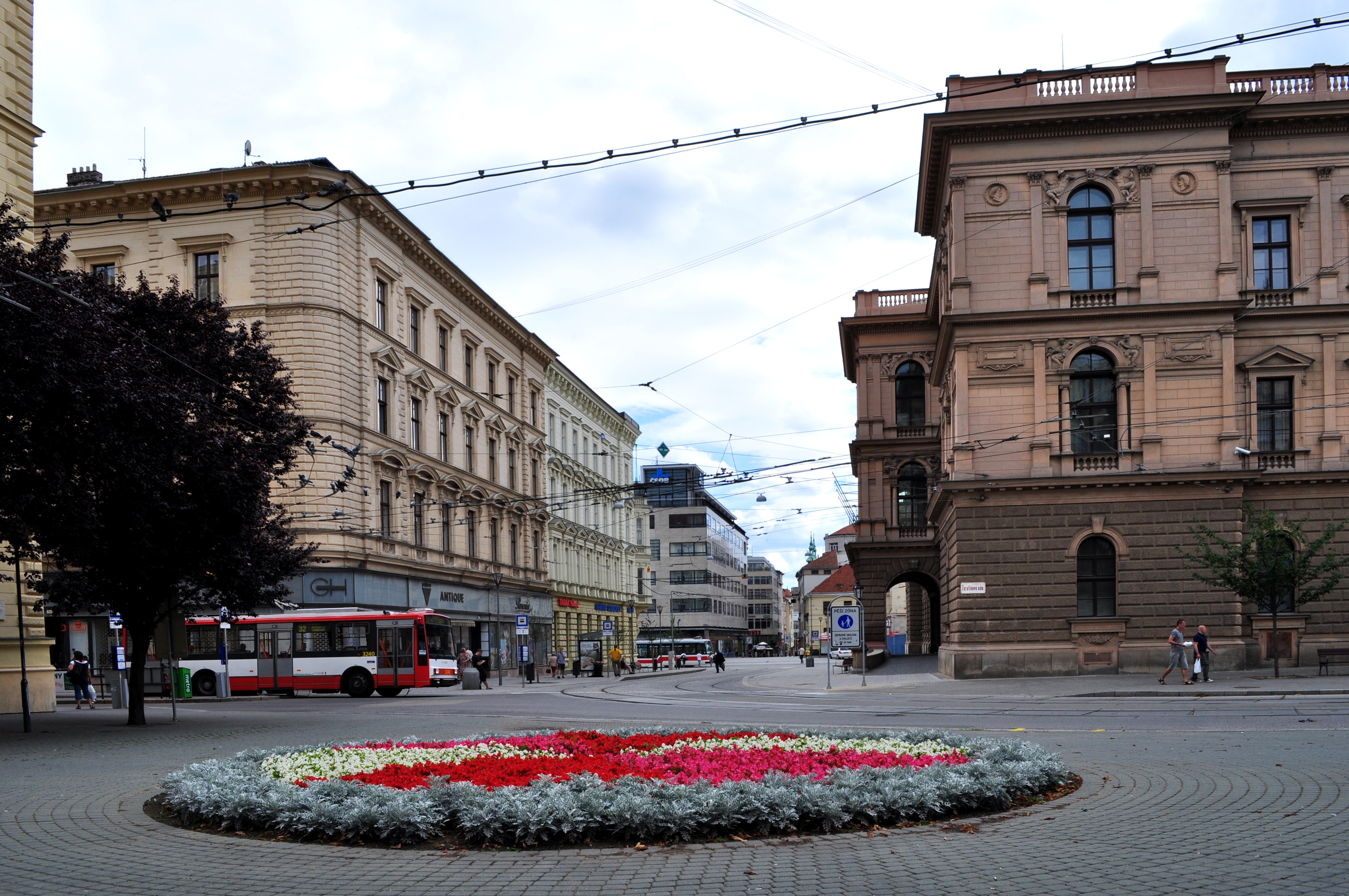 Žerotín square in Brno